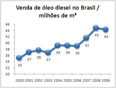 Brasil Diesel sales.